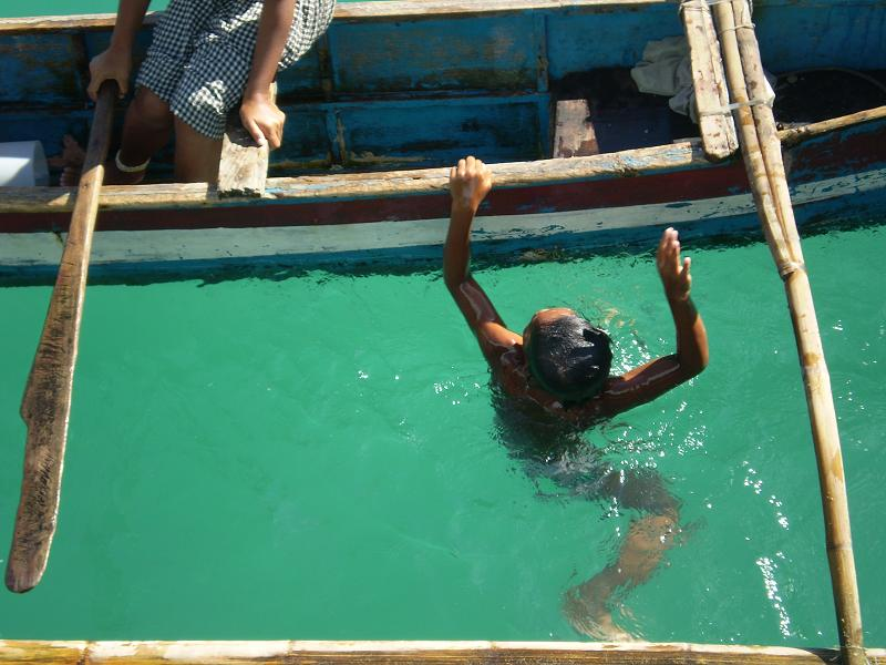 Port of Tagbilaran. Kid diving for coins thrown in the water by tourist. Taken with pns Olympus